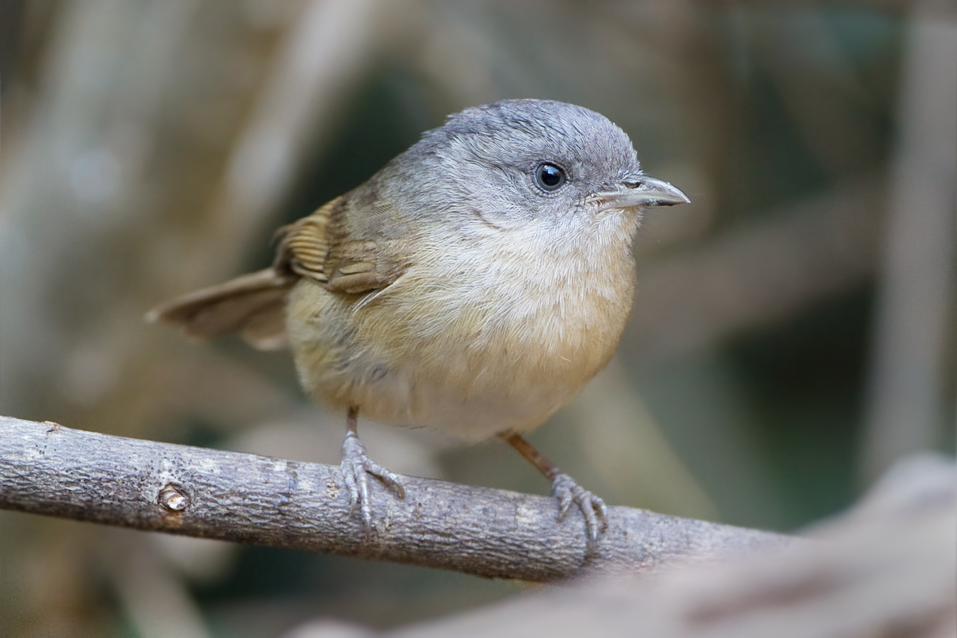 Brown-cheeked Fulvetta (Alcippe poioicephala) subsp. davisoni, Song Phi Nong, Kaeng Krachan, Phetchaburi, Thailand